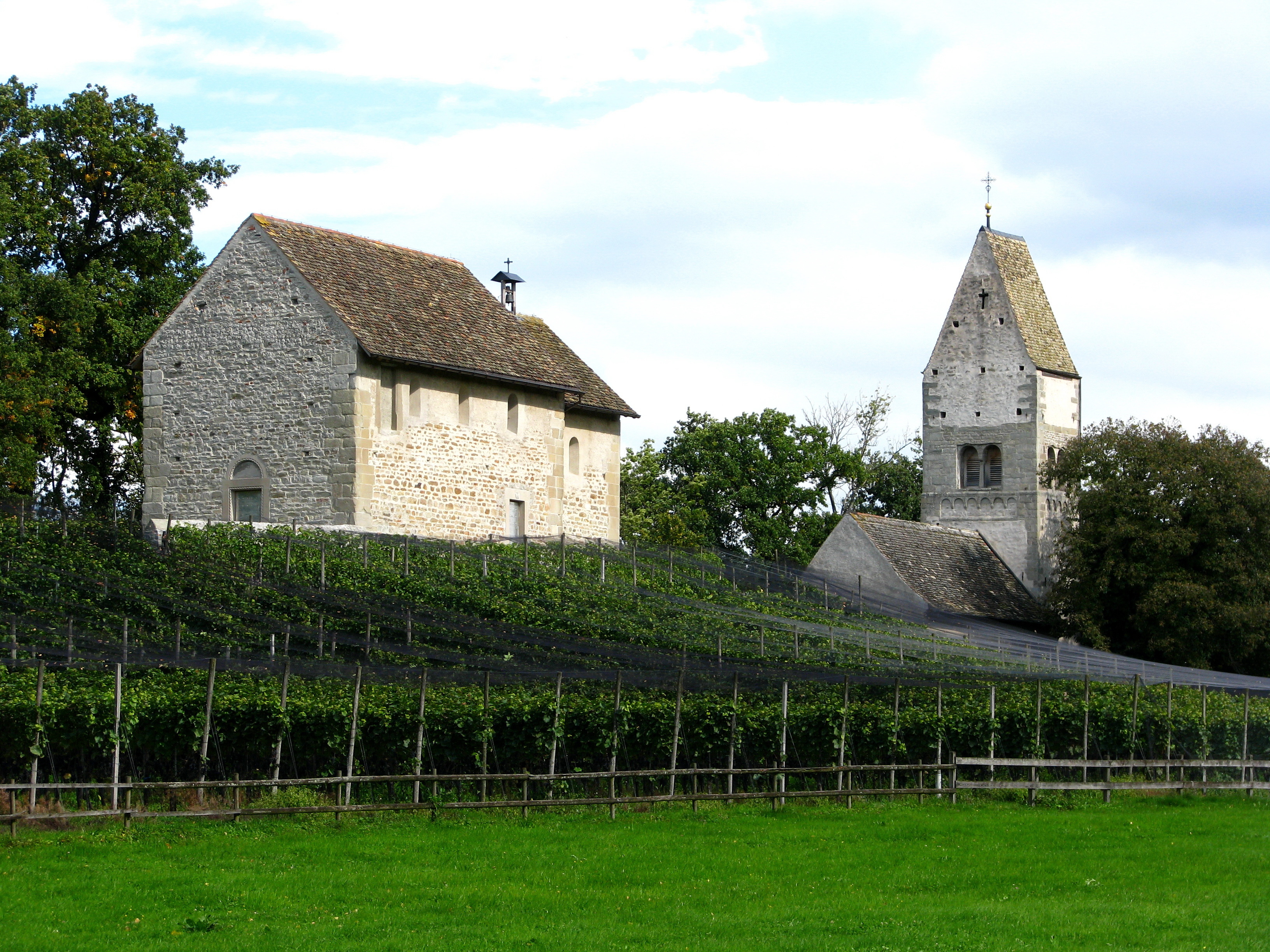 Lake Zürich, Ufenau island : St. Martinskapelle (7./8. Century) to the left side, St. Peter und Paul (1142), where Ulrich von Hutten (* 1488; † 1523) is buried to the right.